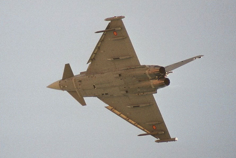 Spanish Air Force Eurofighter Typhoon in the Festa del Cel, in Barcelona (Spain).